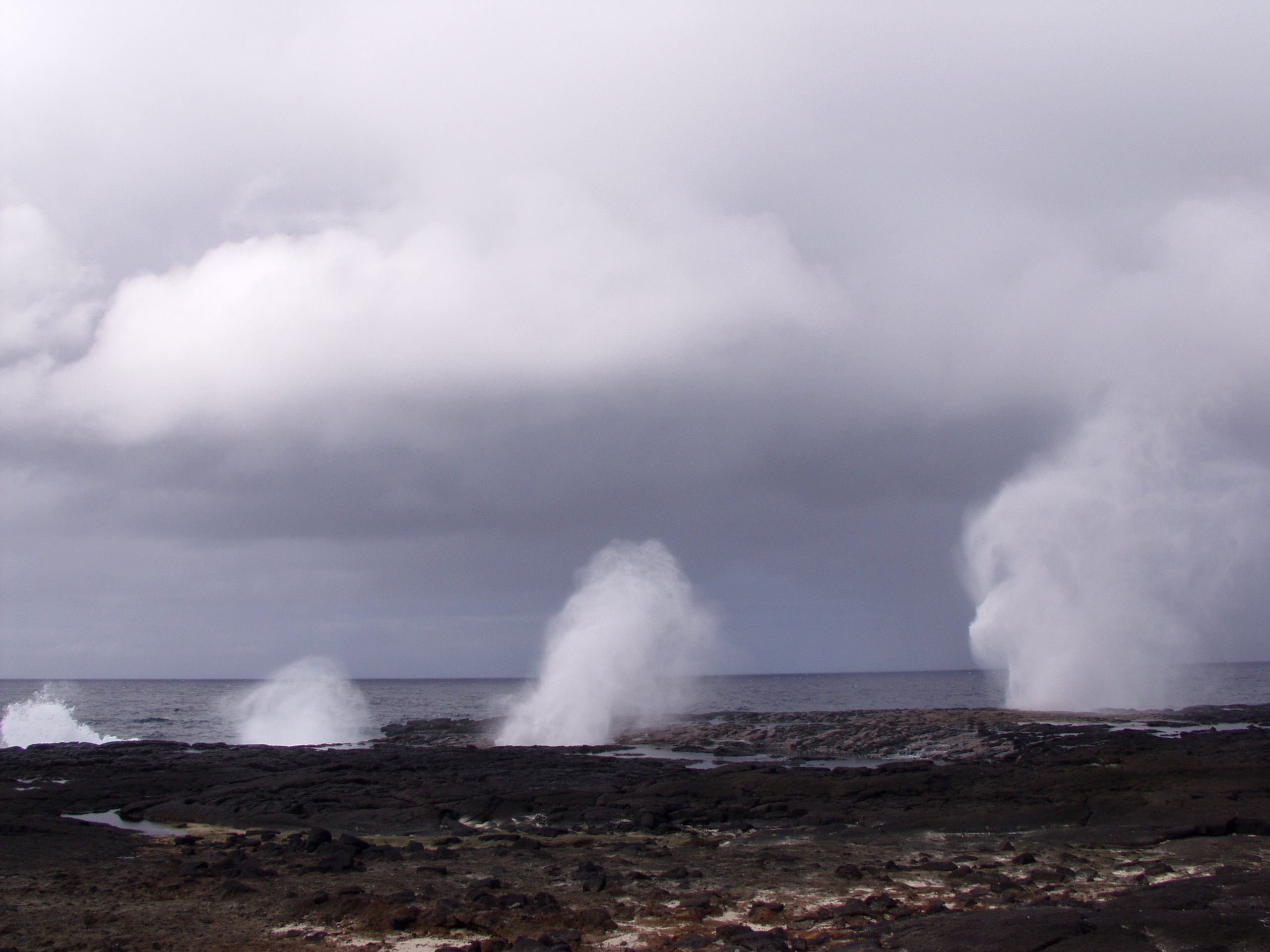 Picture by --CloudSurfer 11:17, 21 Oct 2004 (UTC)